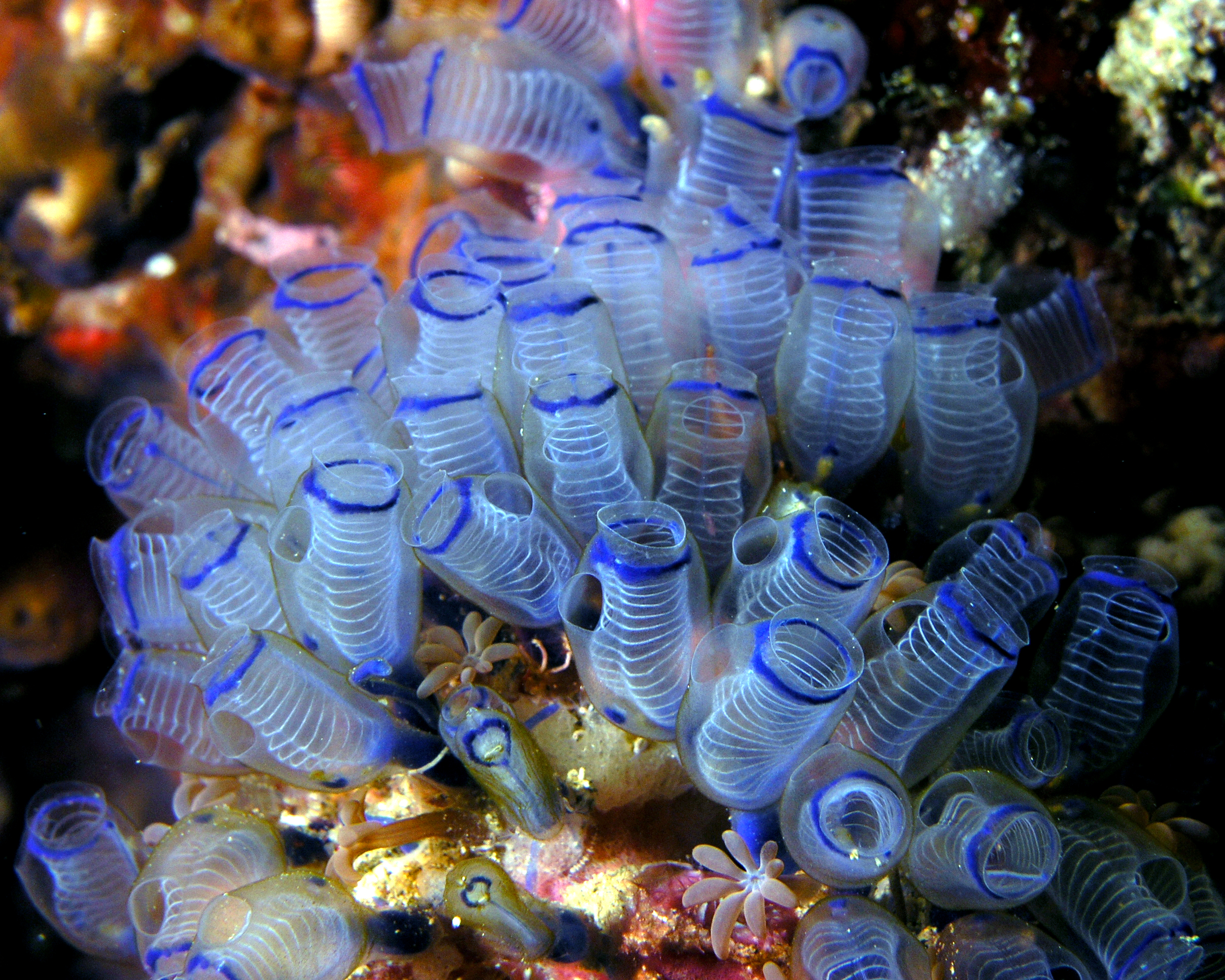 Tunicate colony. (Clavelina moluccensis)